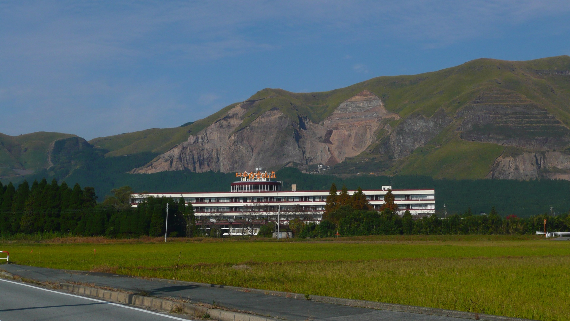 Aso Akamizu Onsen - Aso Hakuun Sanso (Aso City, Kumamoto, Japan)